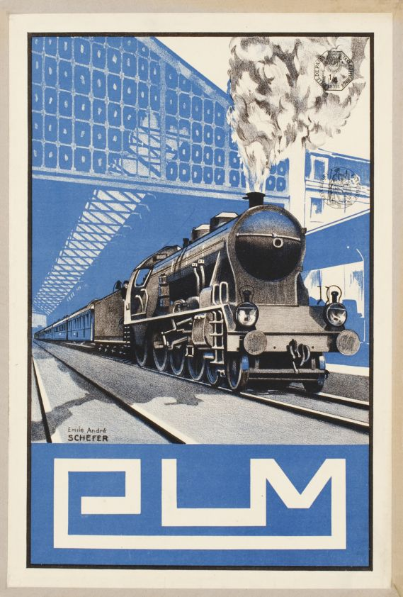 Affiche PLM by E. A. Schefer.